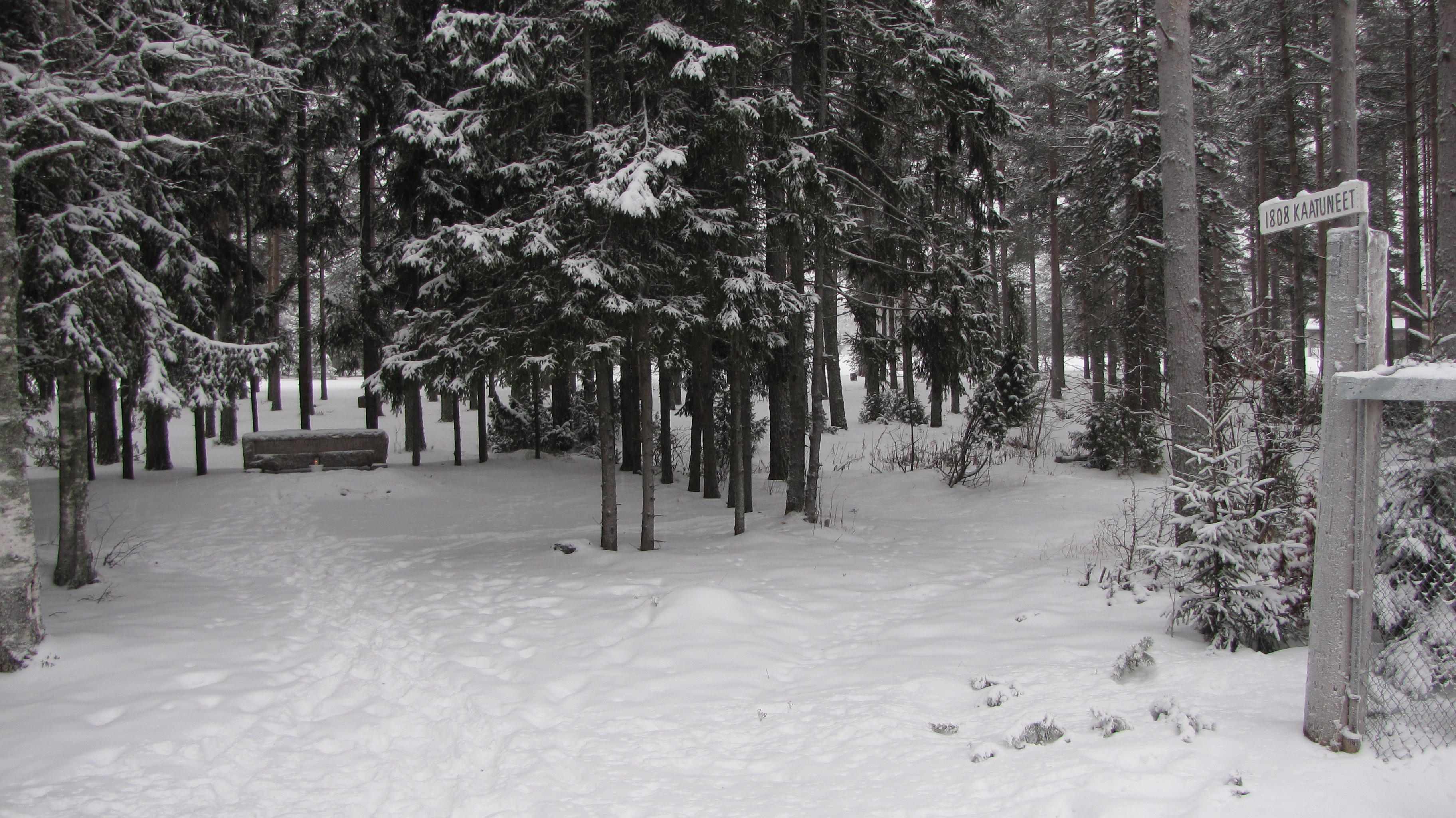 Memorial of Battle of Nummijärvi in Kauhajoki, Finland. The battle was part of Finnish War (1808–1809).